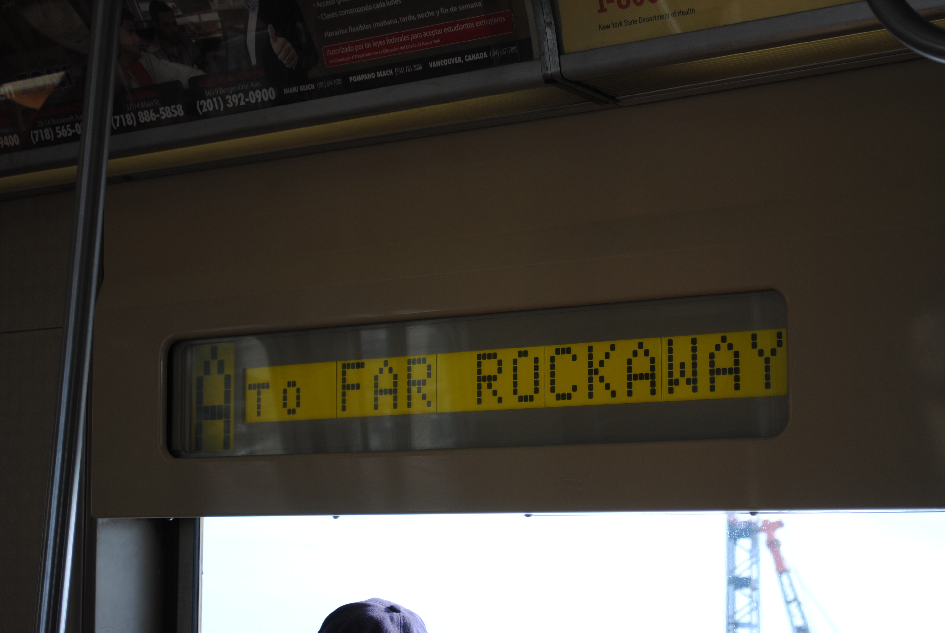 A Train-Destination signs